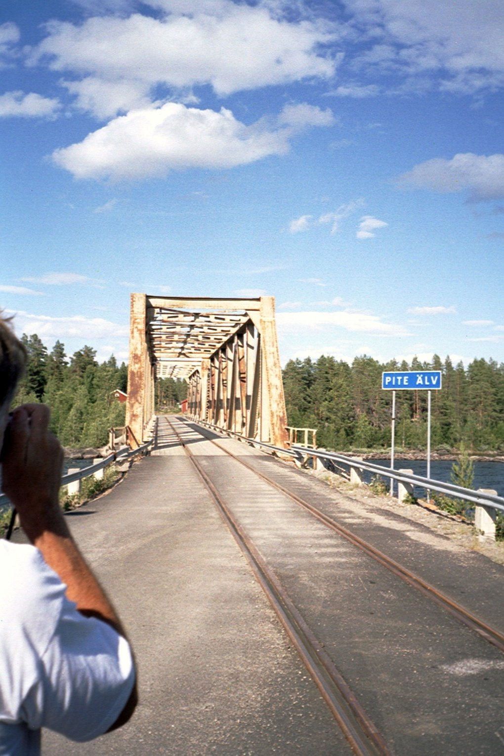 Swedish Inland Railway (Kristinehamn-Mora-Östersund-Gällivare). Combined Road and Railway bridge (between Arvidsjaur and the polar circle).